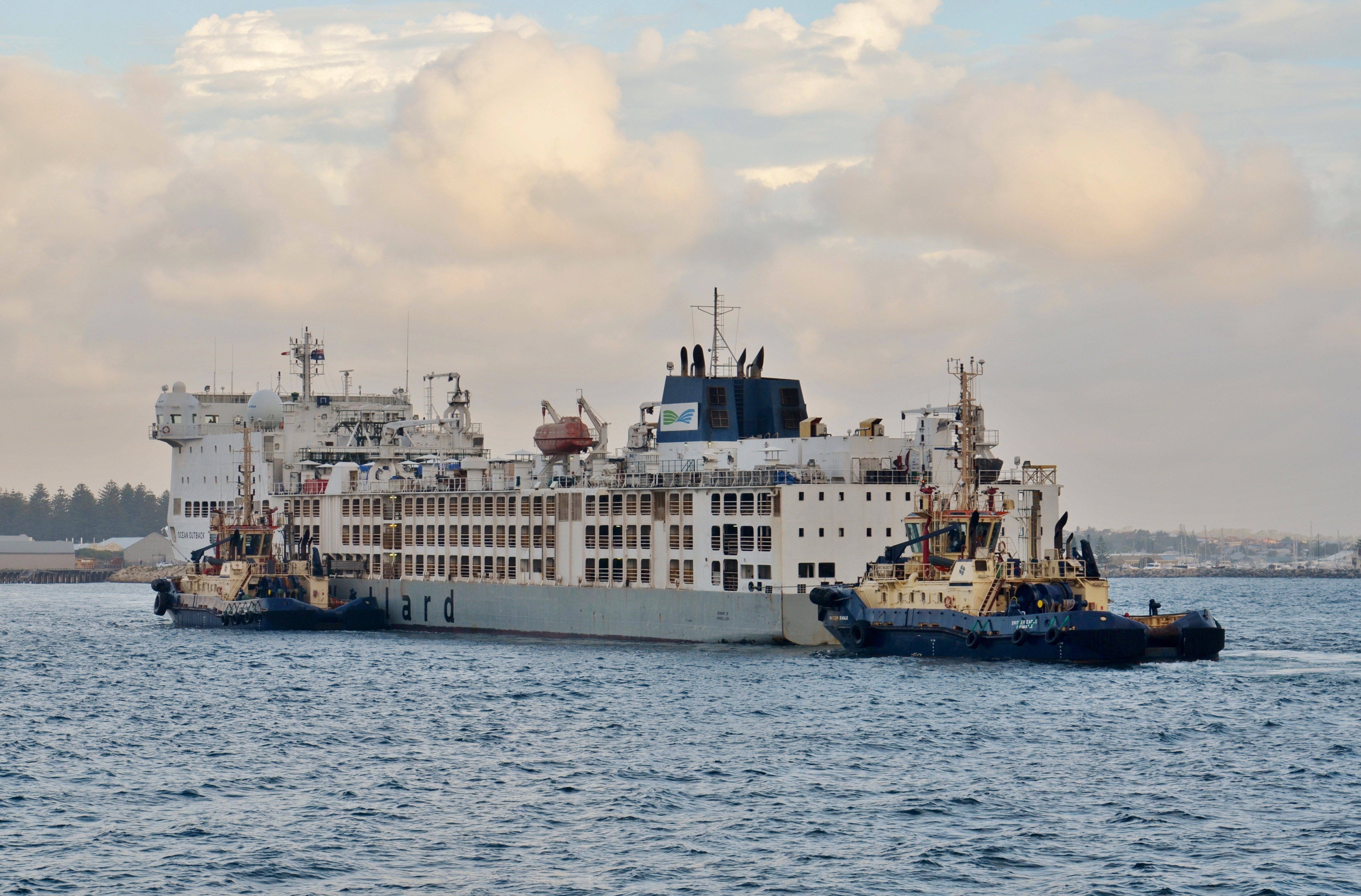 A loaded livestock carrier, Ocean Outback, entering the inner harbour of the Port of Fremantle, Western Australia. She had developed engine trouble about 10 days earlier, after her departure from Fremantle with a cargo of live sheep and cattle bound for Israel. Investigations at Henderson, Cockburn Sound, had later revealed that the faulty engine could not be repaired in Australia. Ocean Outback therefore returned to the inner harbour, where the sheep were unloaded and sent to a pre-export quarantined feedlot. The cattle were then redirected to Vietnam.